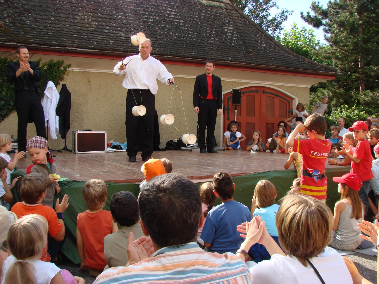 Three jugglers at a street artist festival in Lenzburg (Switzerland)